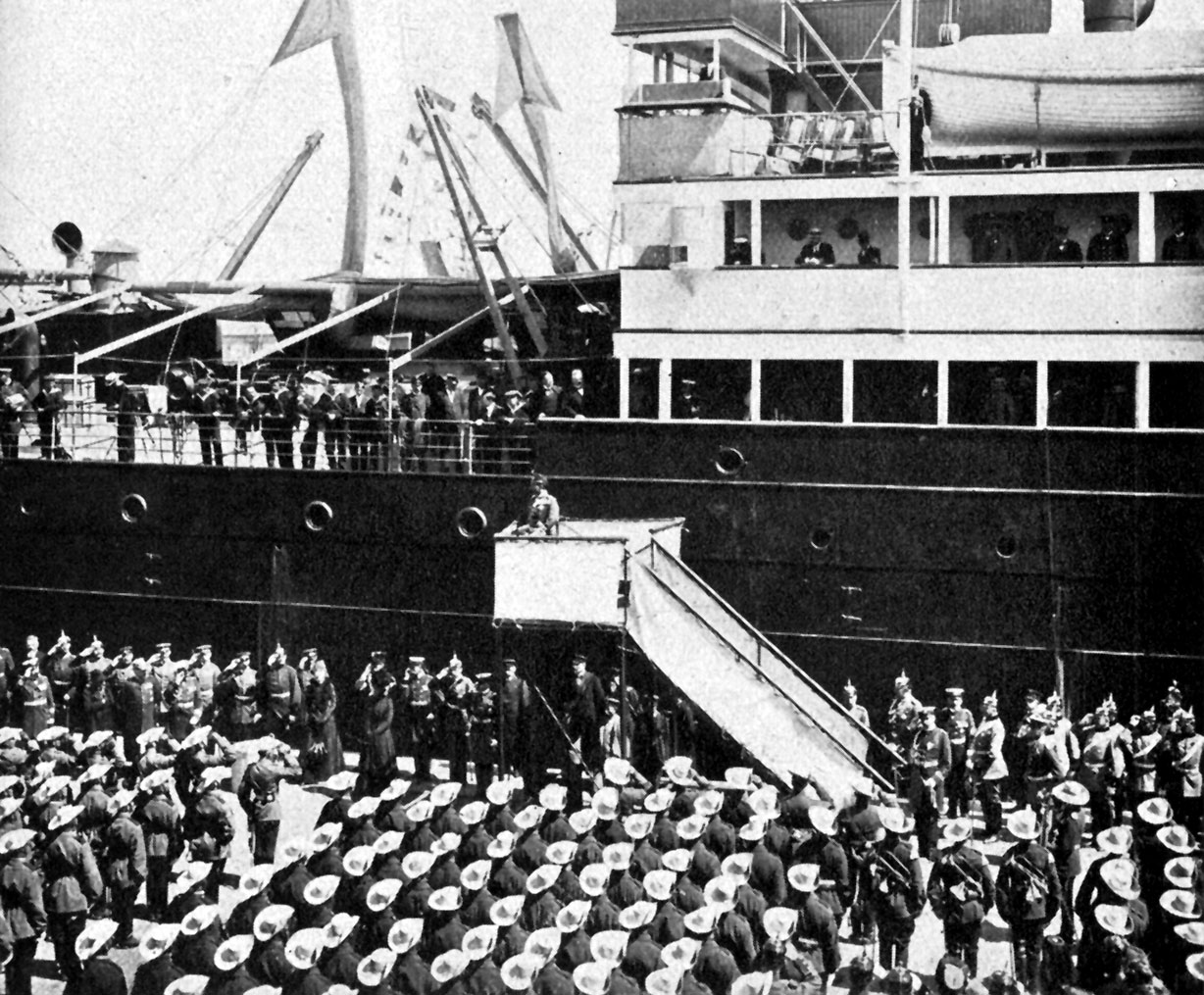 North German Lloyd) line. Original caption from source: Ansprache des Kaisers an die China-Truppen in Bremerhaven